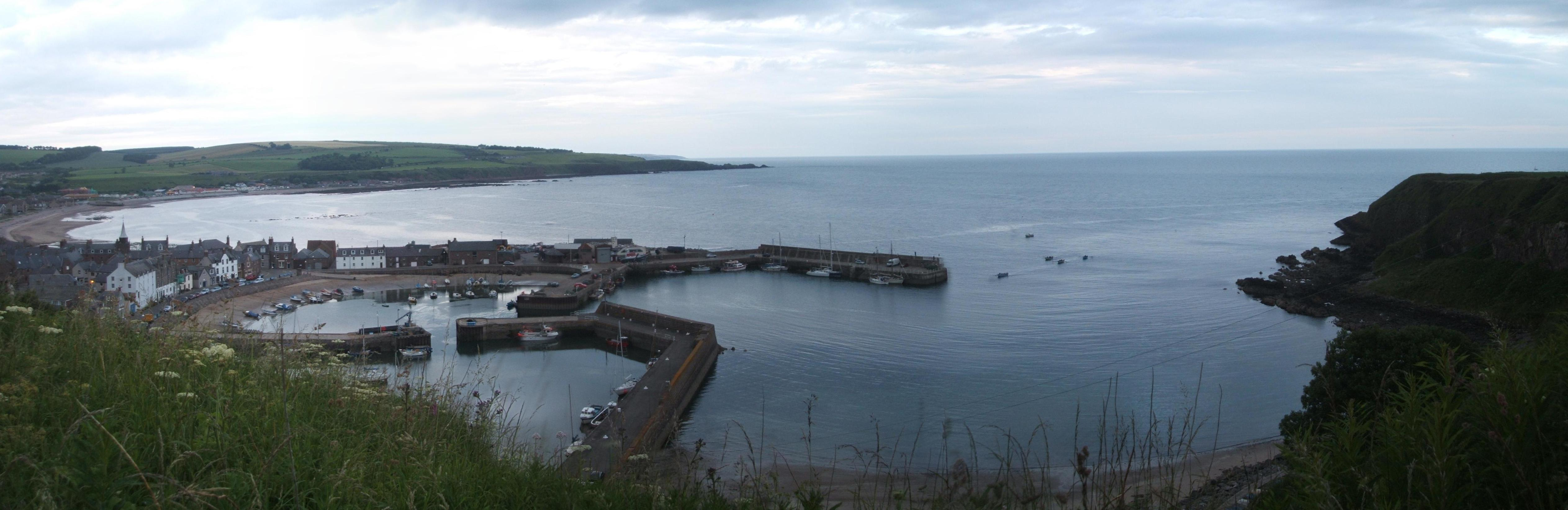 picture of the Stonehaven bay and harbour